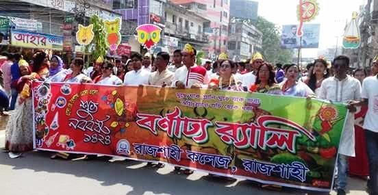 Pohela Boishak celebration rally at Rajshahi city